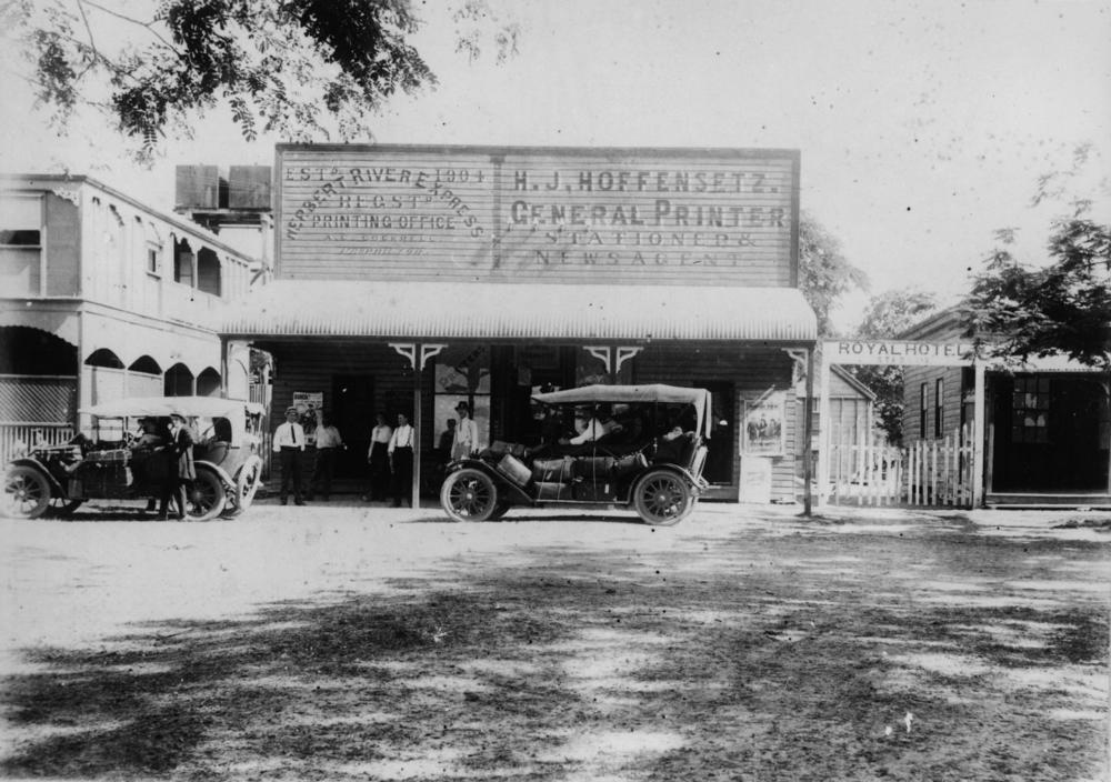 Newspaper offices of the Herbert River Express, Ingham, Queensland, ca. 1919 Touring cars, heavily loaded with luggage, are waiting outside the Herbert River Express offices. The journalists?, in shirt-sleeves are outside the newspaper office. The newspaper offices adjoin a walkway to the Royal Hotel.